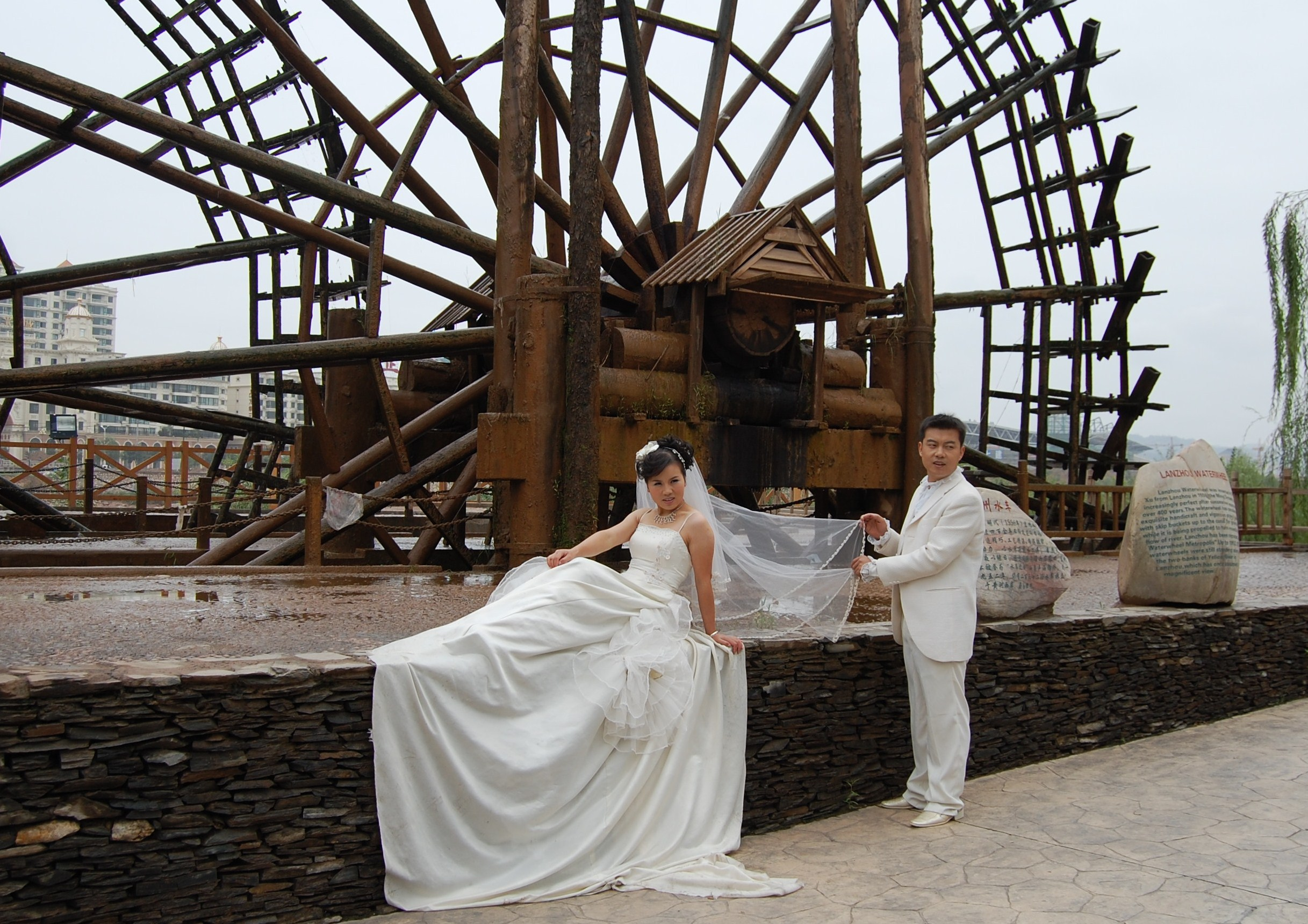 Watermills Park in Lanzhou